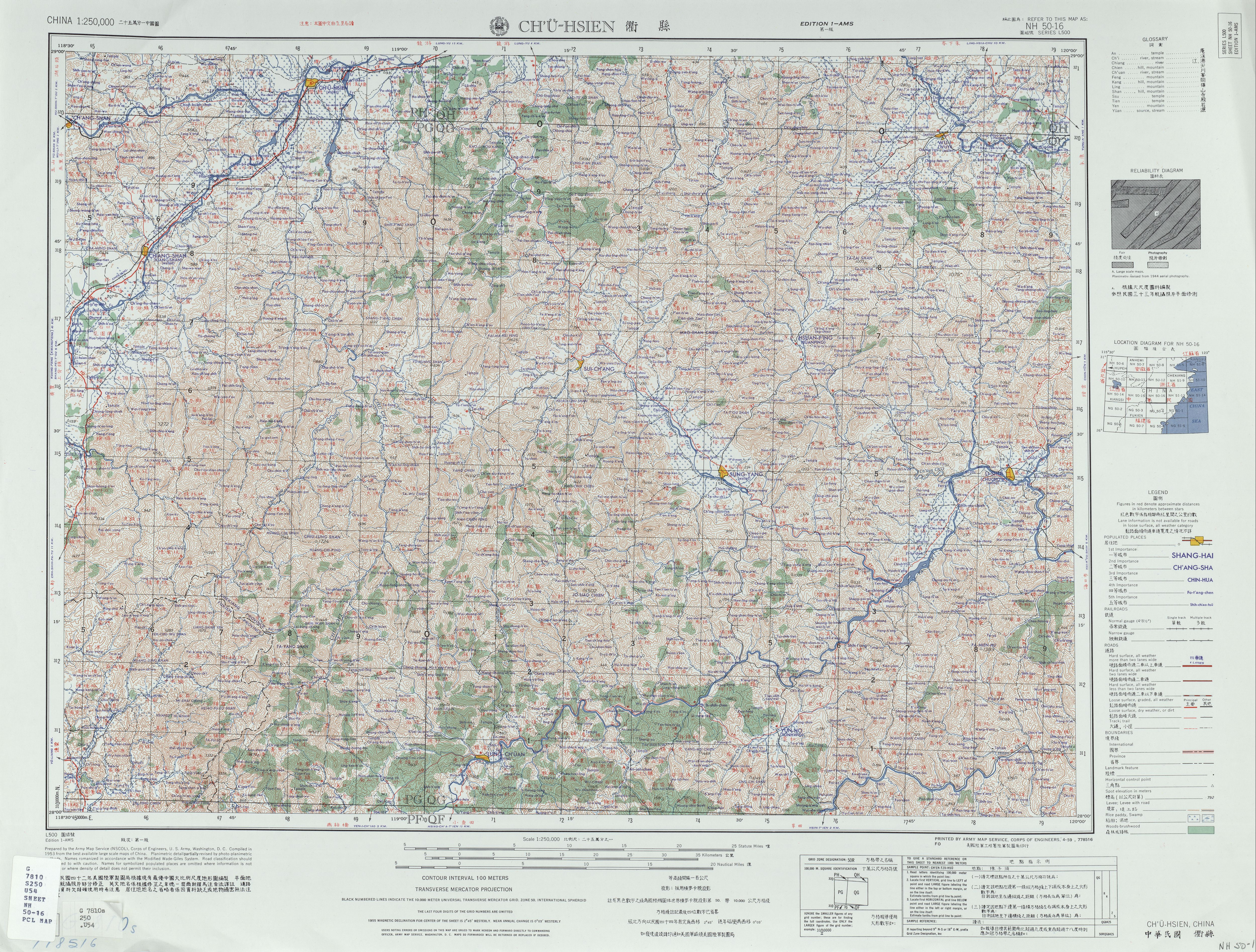 Map of Quzhou (Ch'ü-hsien 衢縣) and surrounding region, in the China AMS Topographic Maps series